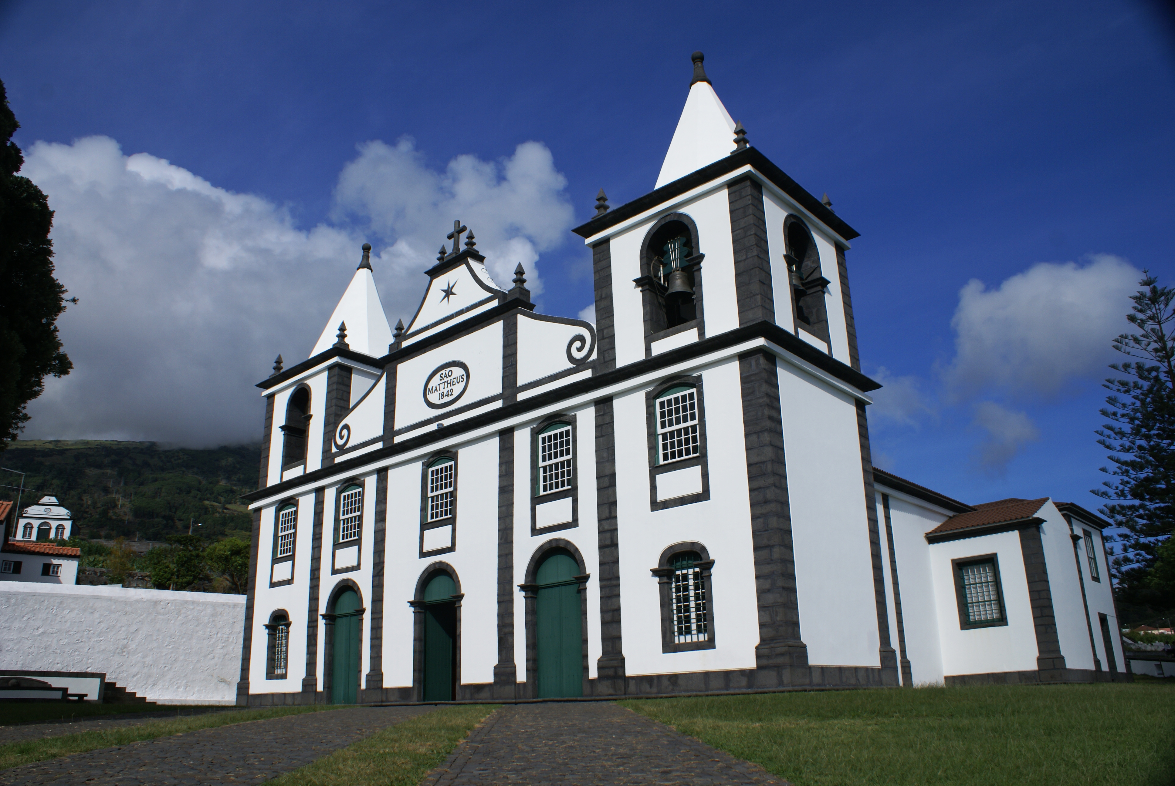 Front façade of the Church of São Mateus, São Mateus, Madalena, Pico (Azores), Portugal